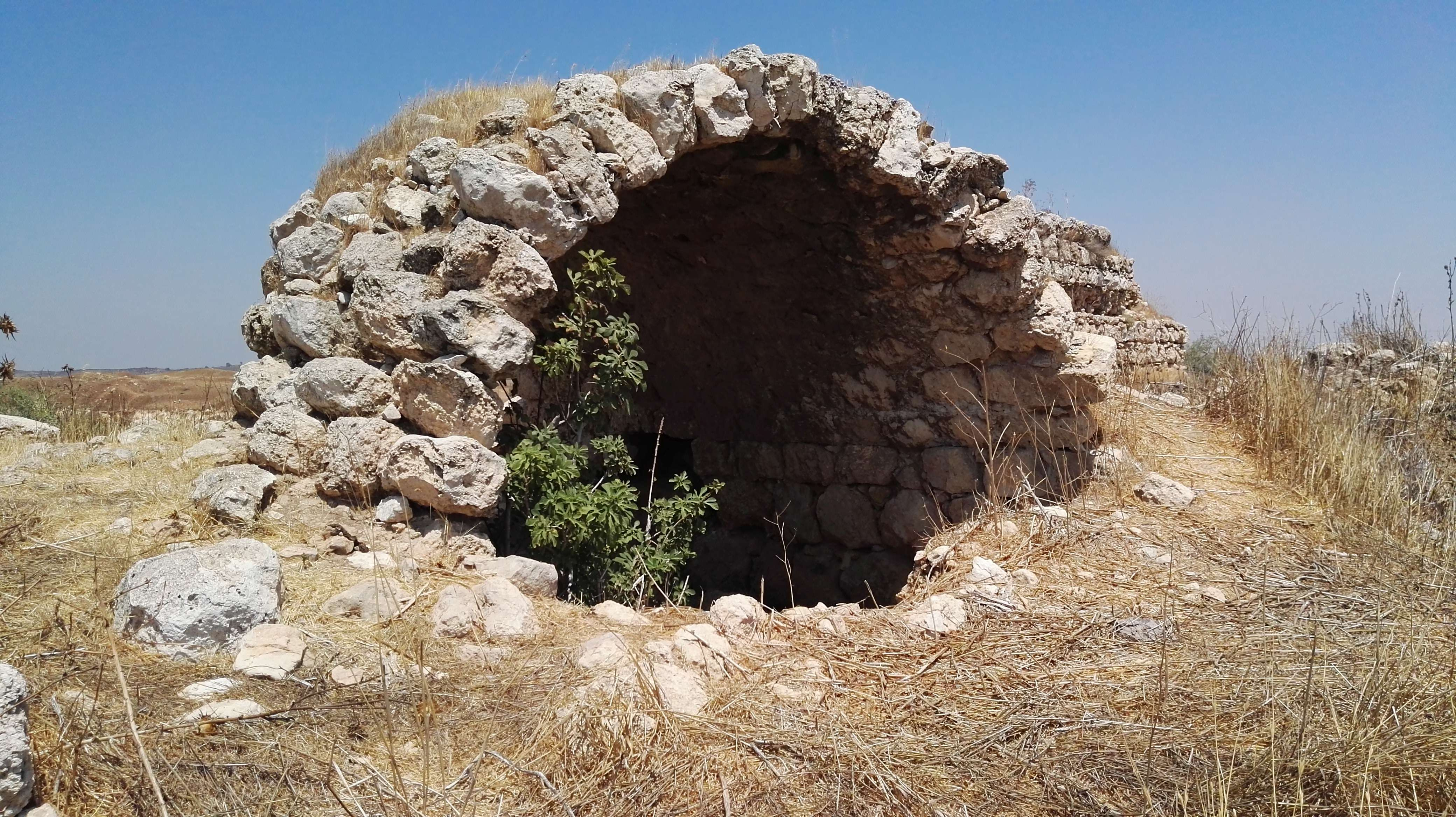 Remains of a Crusader fortress at Khirbet Sumail,near moshav Nahala, Israel.